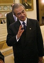 Abdullah Badawi, Prime Minister of Malaysia, at a visit to the White House in July 2004.